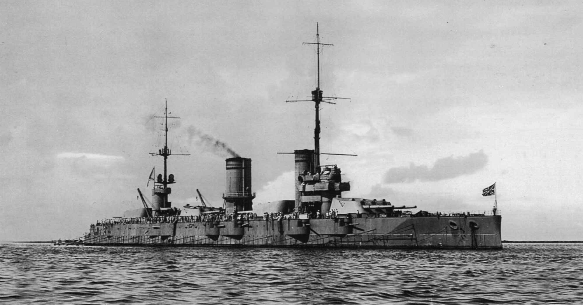 Imperial Russian battleship Gangut in Helsinki, 27 June 1915.